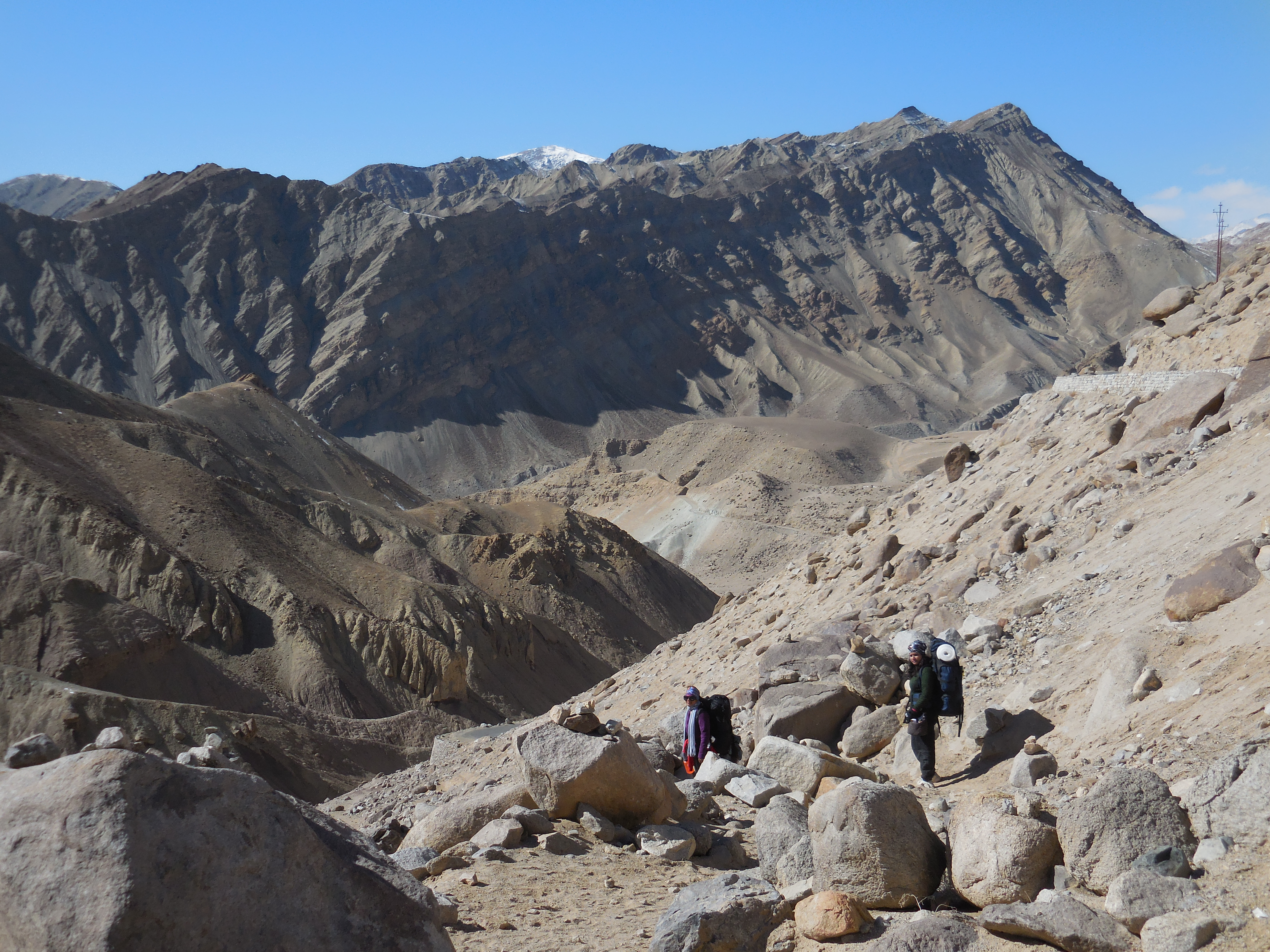 Two girls hiking in sham valley, Leh-Ladakh, India